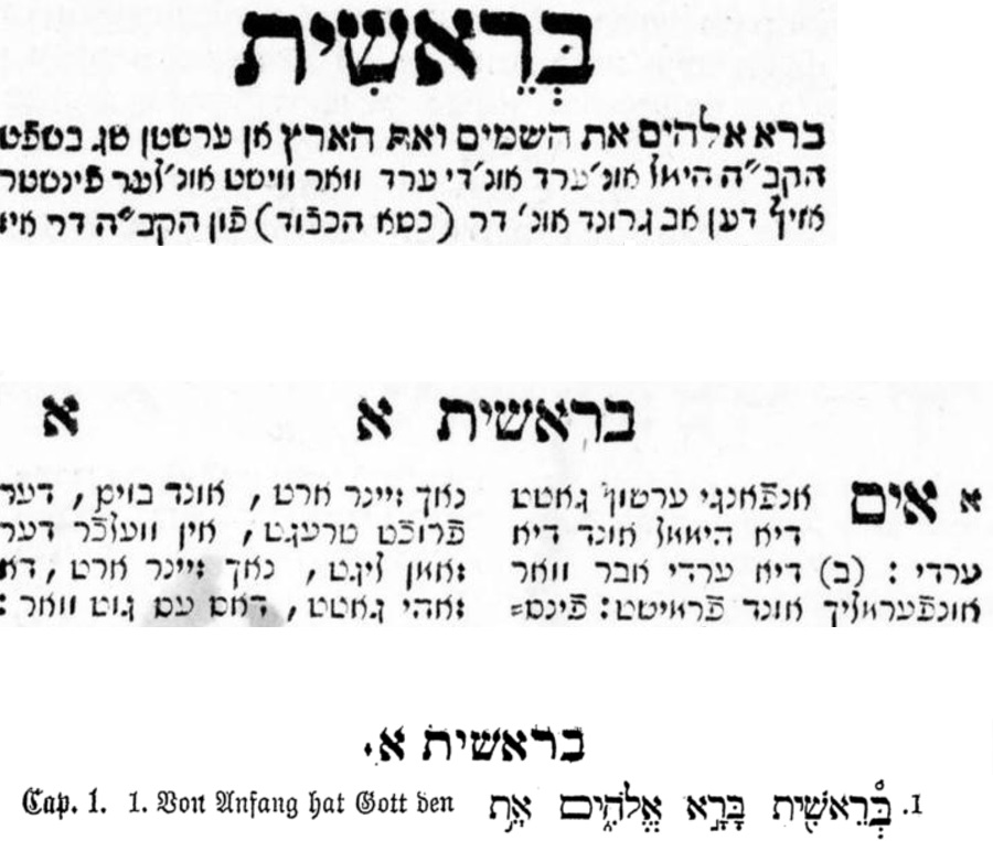 Linguistic acculturation of German Jews as attested in the opening lines of Genesis, in three versions with translations: a 1764 Tseno Ureno, (top), in Judaeo-German; Mendelssohn's Bi'urcirca 1780 (edition printed 1810), Standard German in Hebrew letters; and Hirsch's fully German translation, 1867.